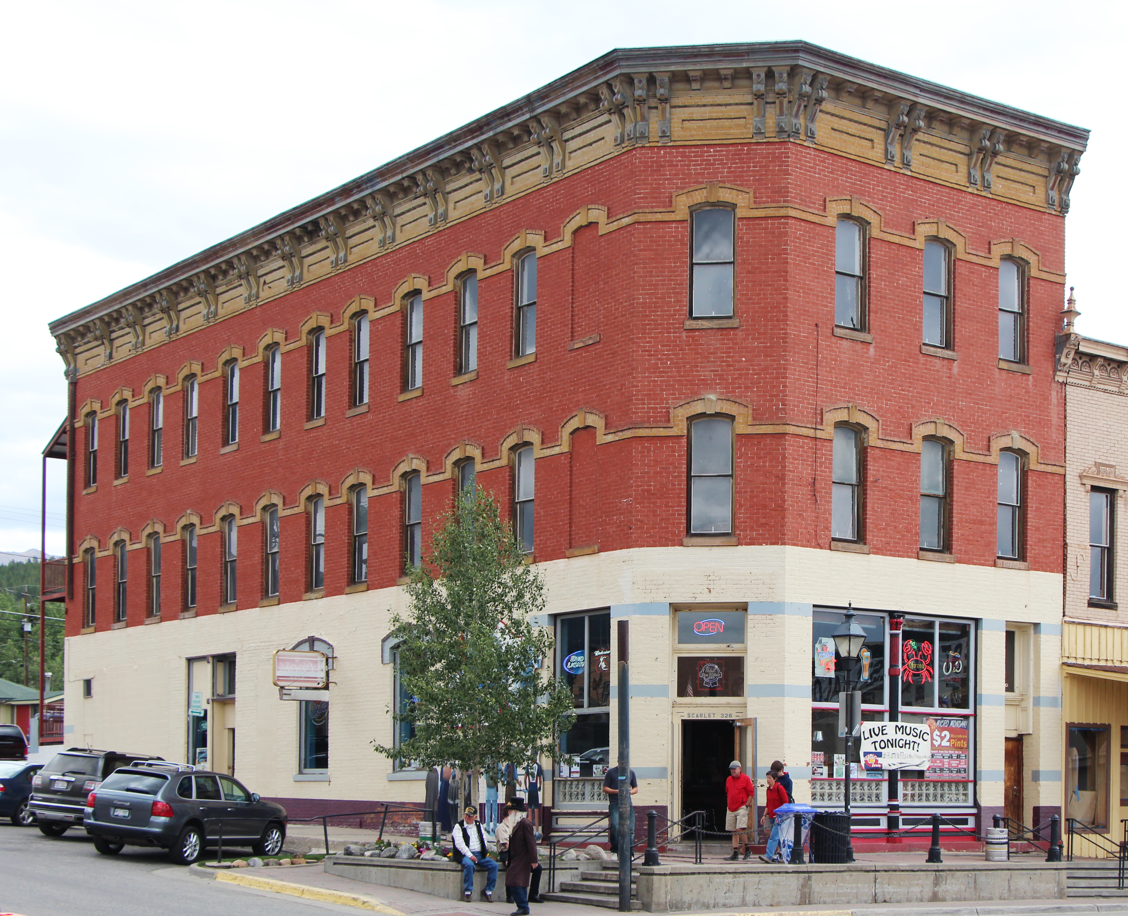 Breene Block, 326 Harrison Ave., Leadville, CO